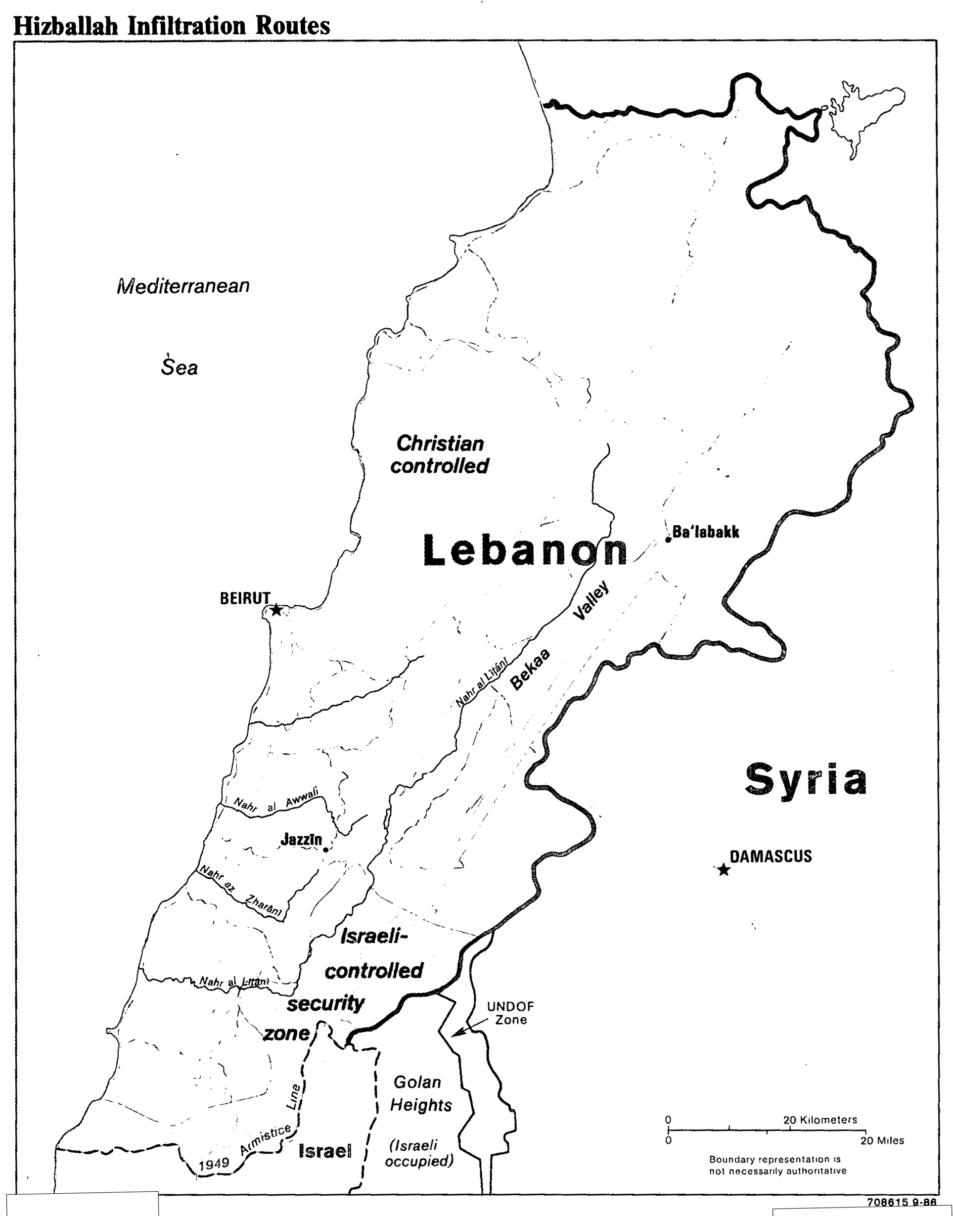 CIA map of southern Lebanon and Hezbollah infiltration routes into the Israeli-occupied security zone.